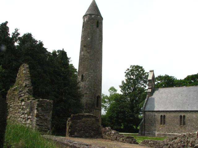 Timahoe Round tower and Monastery. The tower is one of the finest round tower in Ireland. The small building, adjacent to the tower is now a library. Also on site is a mediaeval abbey in ruins, dating from 1069.